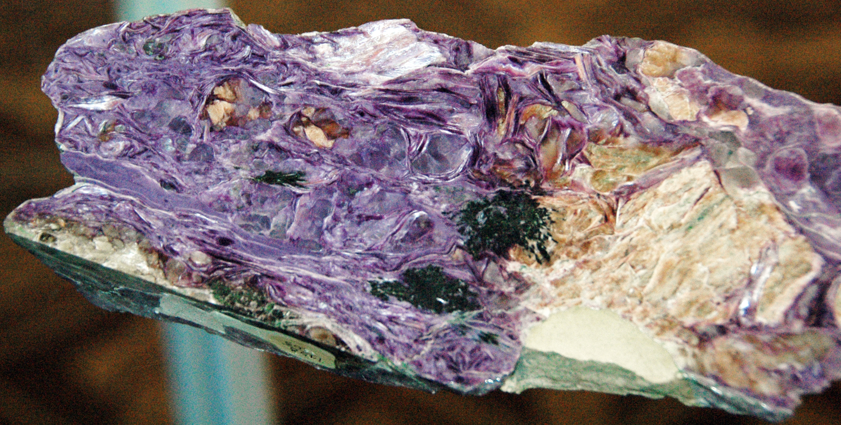 Charoitite (charoite-dominated potassic metasomatite) from the Cretaceous of Siberia. (public display, Yakutsk Public Unified Museum of History & Northern Folk Culture, Yakutsk, Siberia, Russia) The rare, impressively attractive, purple-colored mineral charoite is only known from a relatively small area in Siberia. Several odd, large igneous intrusions have been emplaced in Siberia’s Baikal-Aldan Belt. One of these, the Murun Complex, consists of several plutons. Emplacement of the Little Murun Pluton (Malyy Murun Pluton) has resulted in significant contact metamorphism of surrounding rocks. In the southern and southeastern contact aureole of the Little Murun Pluton is a charoitite-carbonatite complex. The charoitites are charoite-dominated contact metamorphic rocks. Metasomatism refers to rocks that have been altered by significant input of elements from an outside source. Because that’s primarily what contact metamorphism is about, such rocks can be called metasomatites. Some of the metasomatites in this area are purple-colored (“Sirenevyy Kamen” - the “Purple Stone” deposit). The purple material is the very rare mineral charoite. Charoite is a “garbage can” mineral, and the chemical formula assigned to it by geologists varies from publication to publication. Here’s one of the formulas I’ve seen, randomly picked: (K,Na)3(Ca,Sr,Ba,Mn)5Si12O30(OH·F)·3H2O - hydrous potassium sodium calcium strontium barium manganese hydroxy-fluorosilicate. Age: Aptian Stage, Early Cretaceous, 115-120 Ma Locality: Charoitites are mined from several specific, relatively closely-spaced localities in the headwaters areas of the Davan and Ditmara streams, south of Olekminsk & the Lena River, way northeast of Lake Baikal, southwestern Yakutia (Sakha), Siberia, Russia (~vicinity of 58º 22’ North latitude, 119º 11’ East longitude)